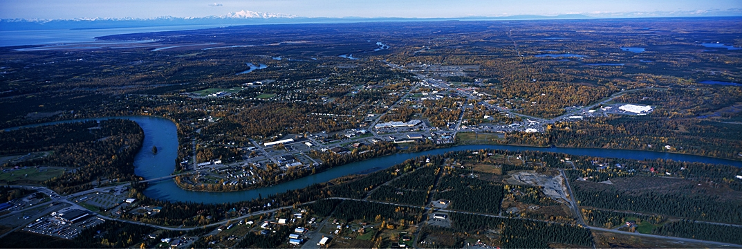 Aerial view of Soldotna, Alaska, also showing the surrounding area stretching out to Cook Inlet.